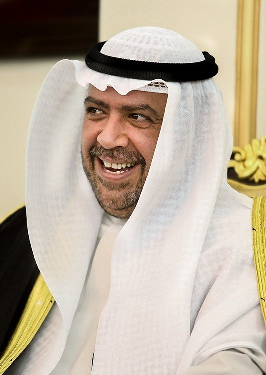 Ahmed Al-Fahad Al-Ahmed Al-Sabah, President of Olympic Council of Asia in Tehran